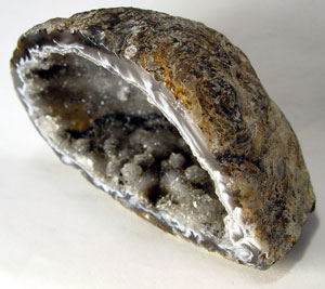 Geode angle 300x267